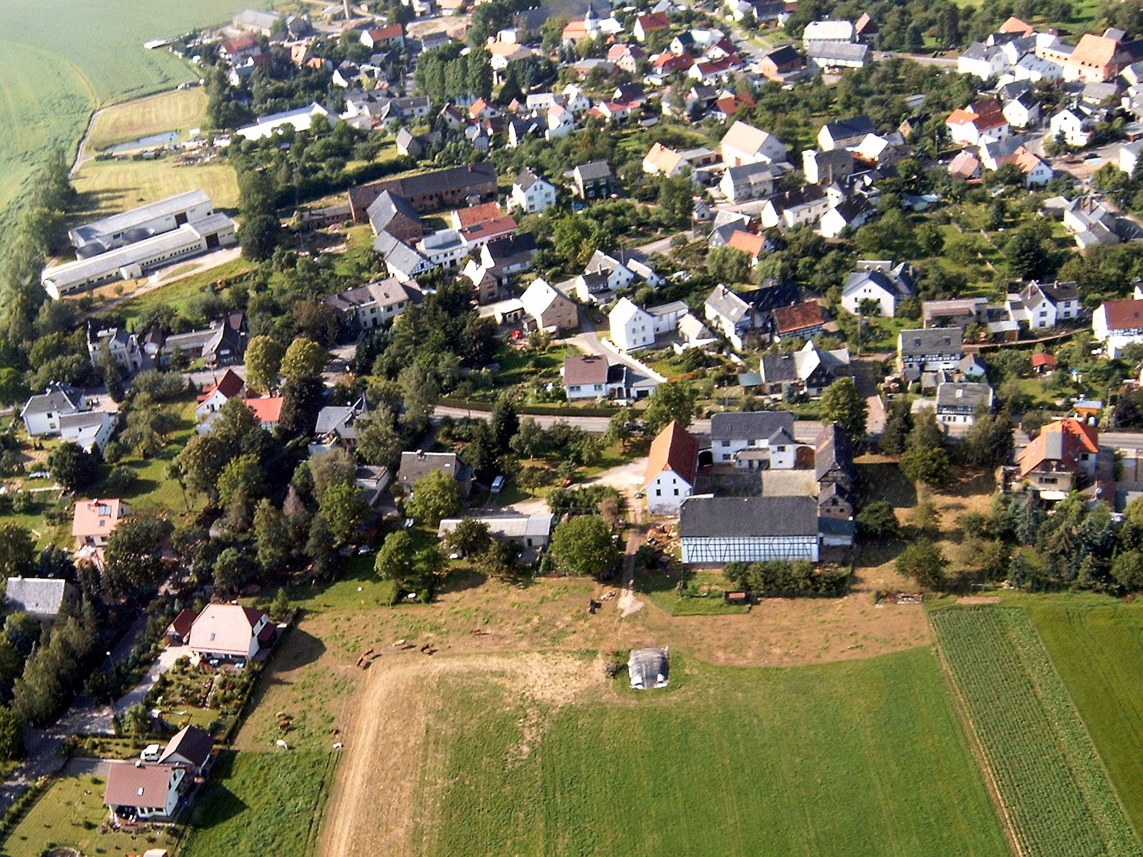 Aerial view of Mannischswalde in Crimmitschau, Saxony